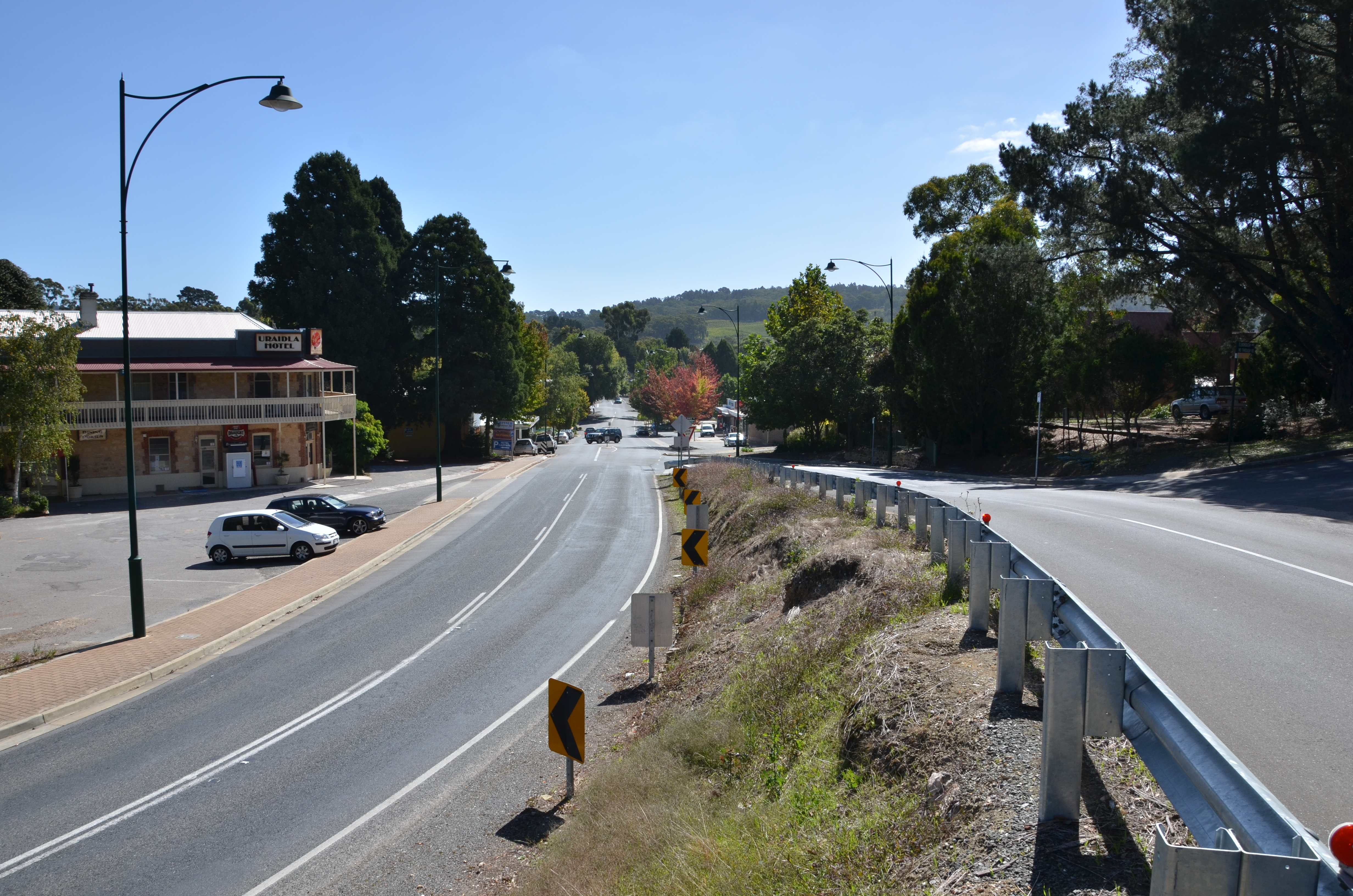 Main street of Uraidla, South Australia. The Uraidla Hotel is at left of frame.